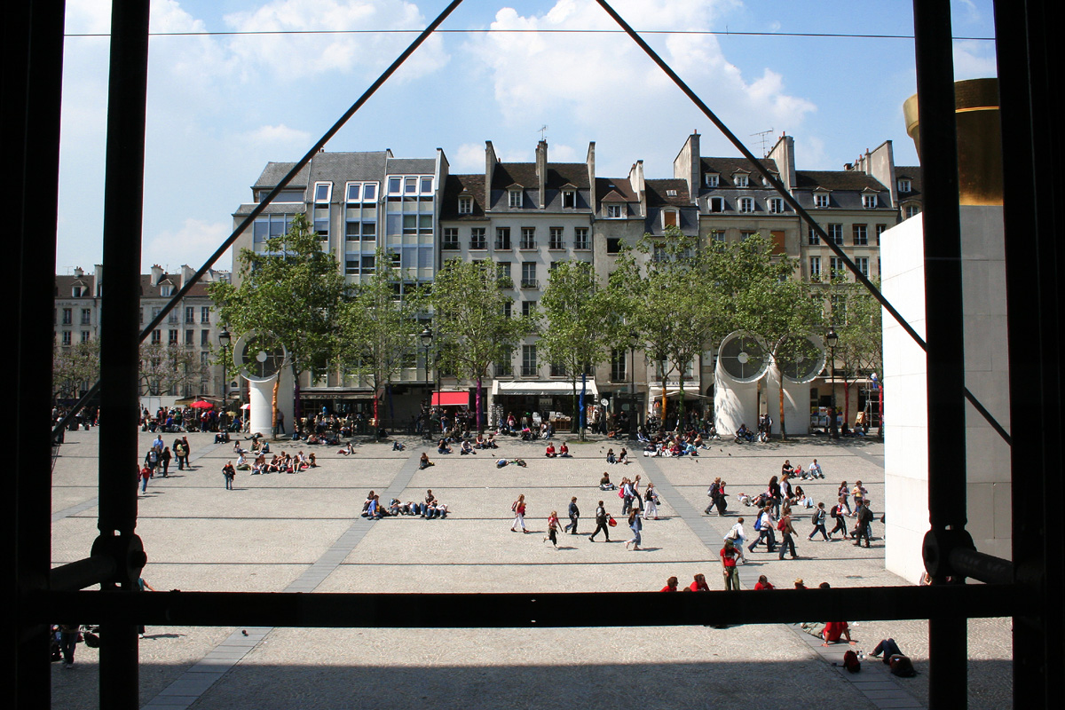 view from The Centre Georges Pompidou, Paris